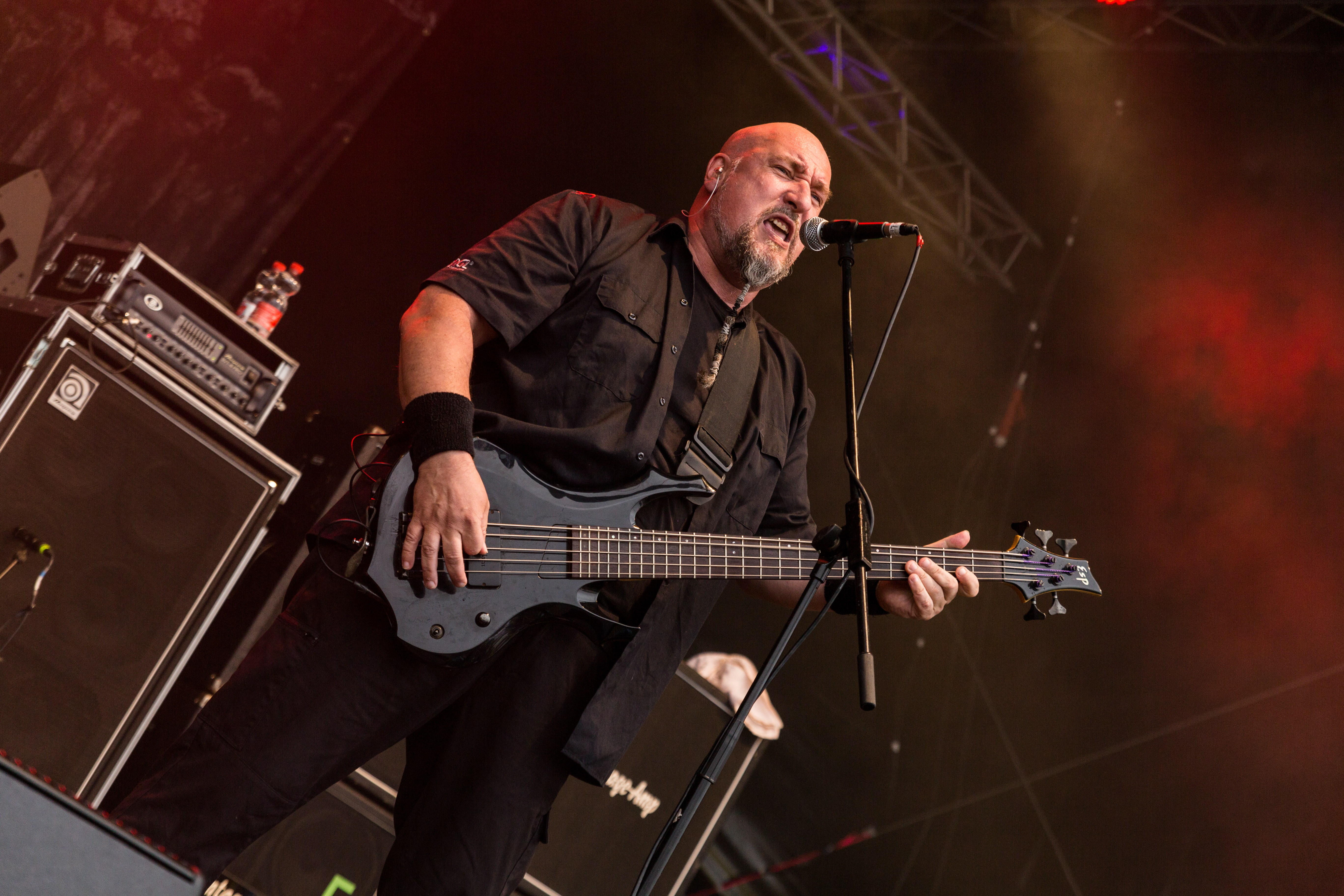 The German heavy metal band Rage at the Metal Frenzy 2017 in Gardelegen/Germany.